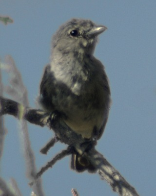 Gray Vireo, Vireo vicinior, Sandoval County, New Mexico. Someday someone will get a better picture.